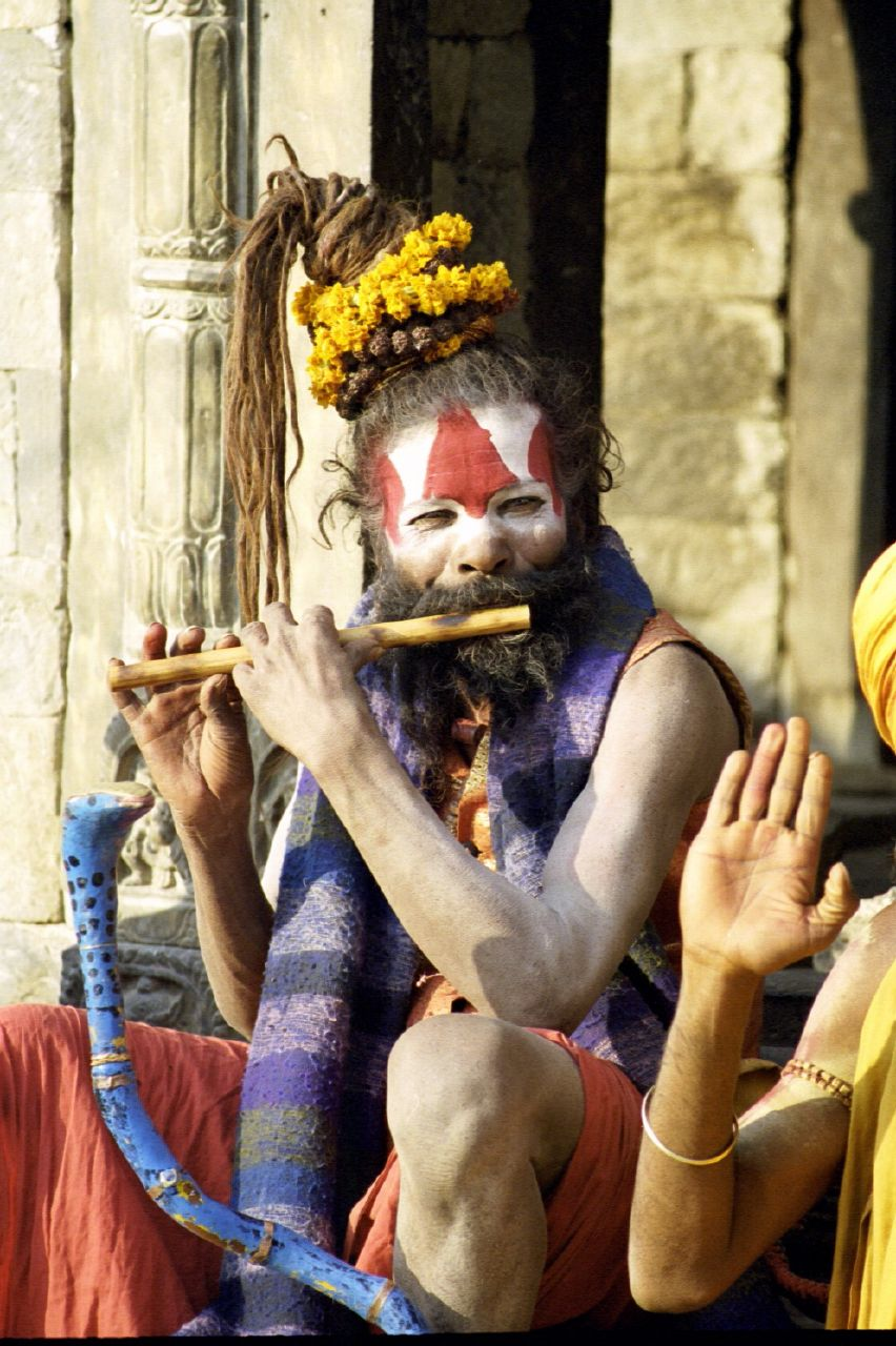 A sadhu playing flute, Benaras.